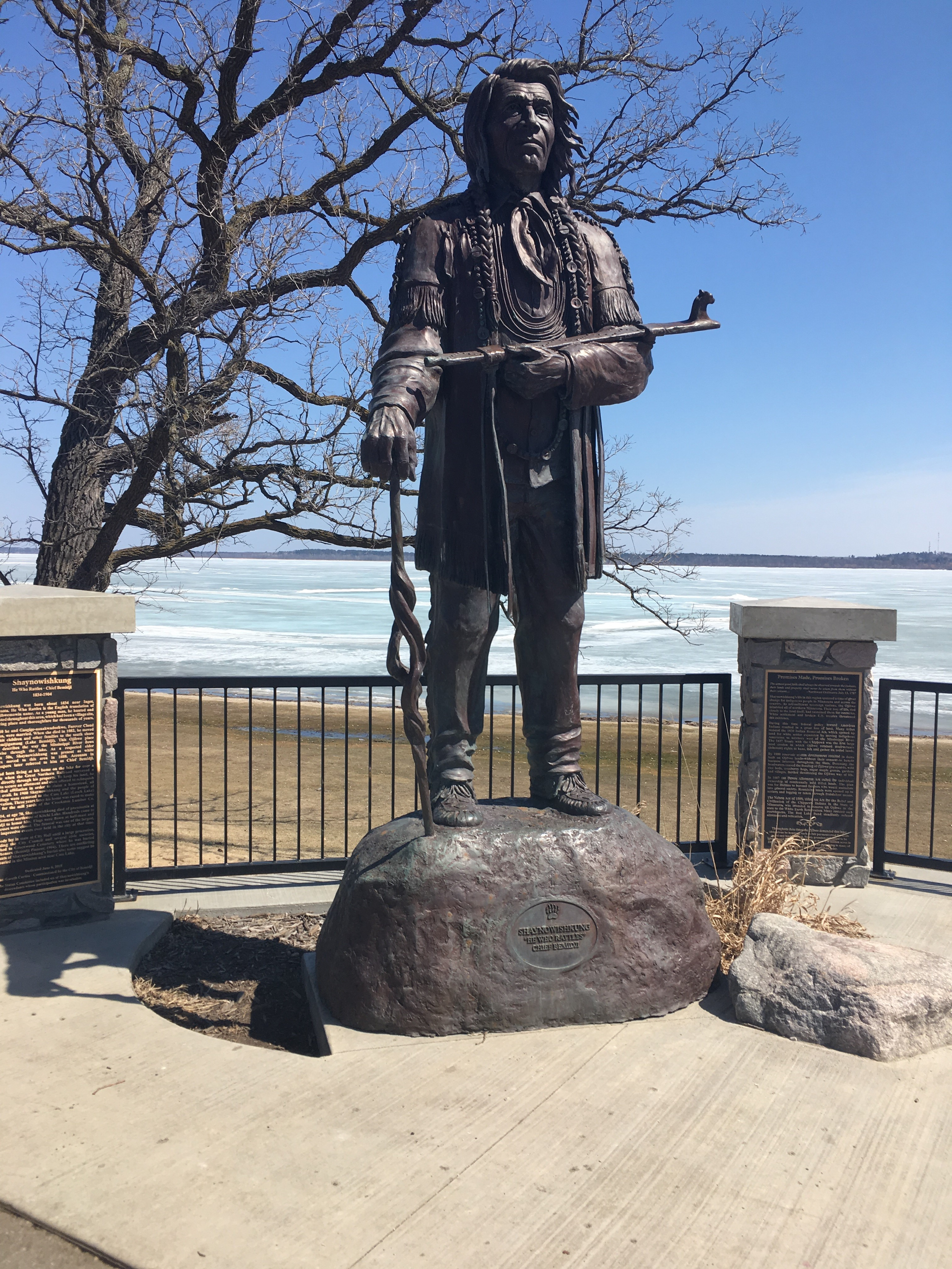 I received permission from the sculptor's artist Gareth Curtiss to publish picture.